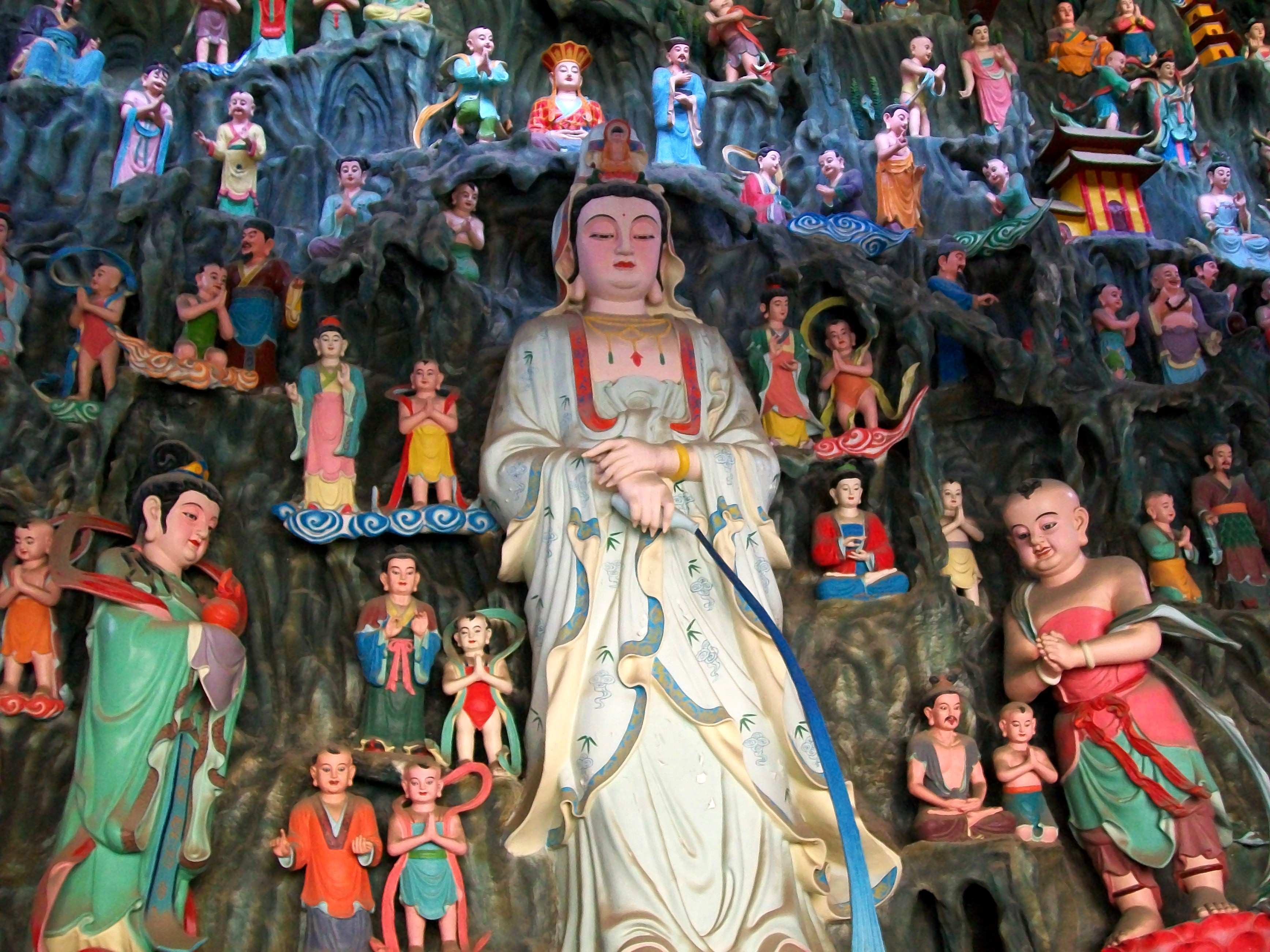 Avalokitasvara Bodhisattva, attended by the Lotus Sutra Nagakanya (Long Nu) and Sudhana. Many other figures surround her as well, such as Xuanzang. Outside the frame of the photo, there are also Samantabhadra Bodhisattva and Manjusri Bodhisattva.